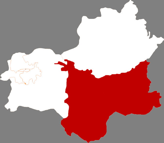 Location of Xinbin Manchu Autonomous County in Fushun City, China